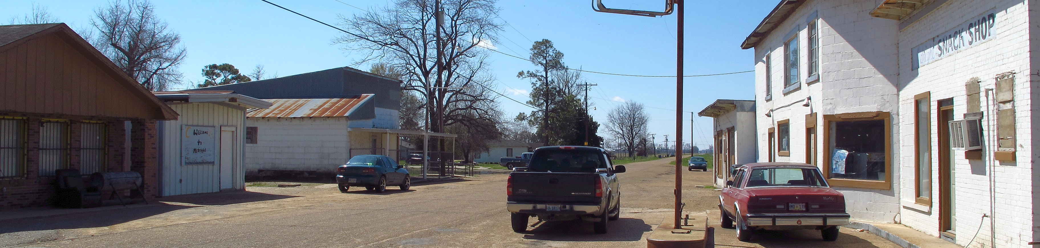 Midnight, Humphreys County, Mississippi.